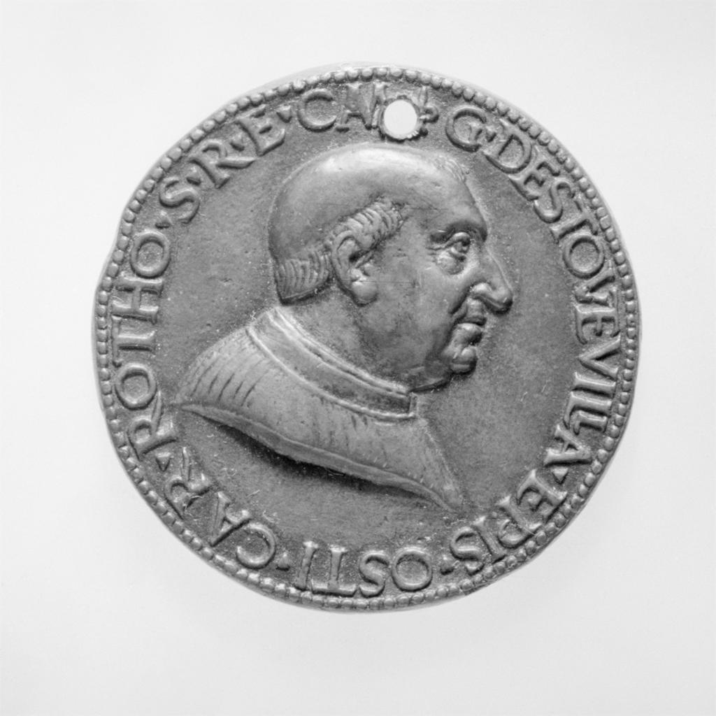 Front of a bronze medal of Guillaume d'Estouteville. Made by Cristoforo di Geremia after 1461.